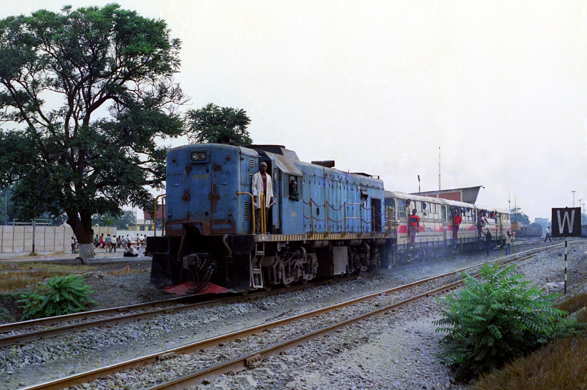 Ex SAR Class 32-000 no. 32-013 on the Nkana-Chibuluma miners train, Nkana Mine Sidings, Zambia